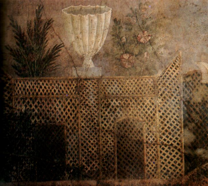 ancient roman fresco of Pompeji